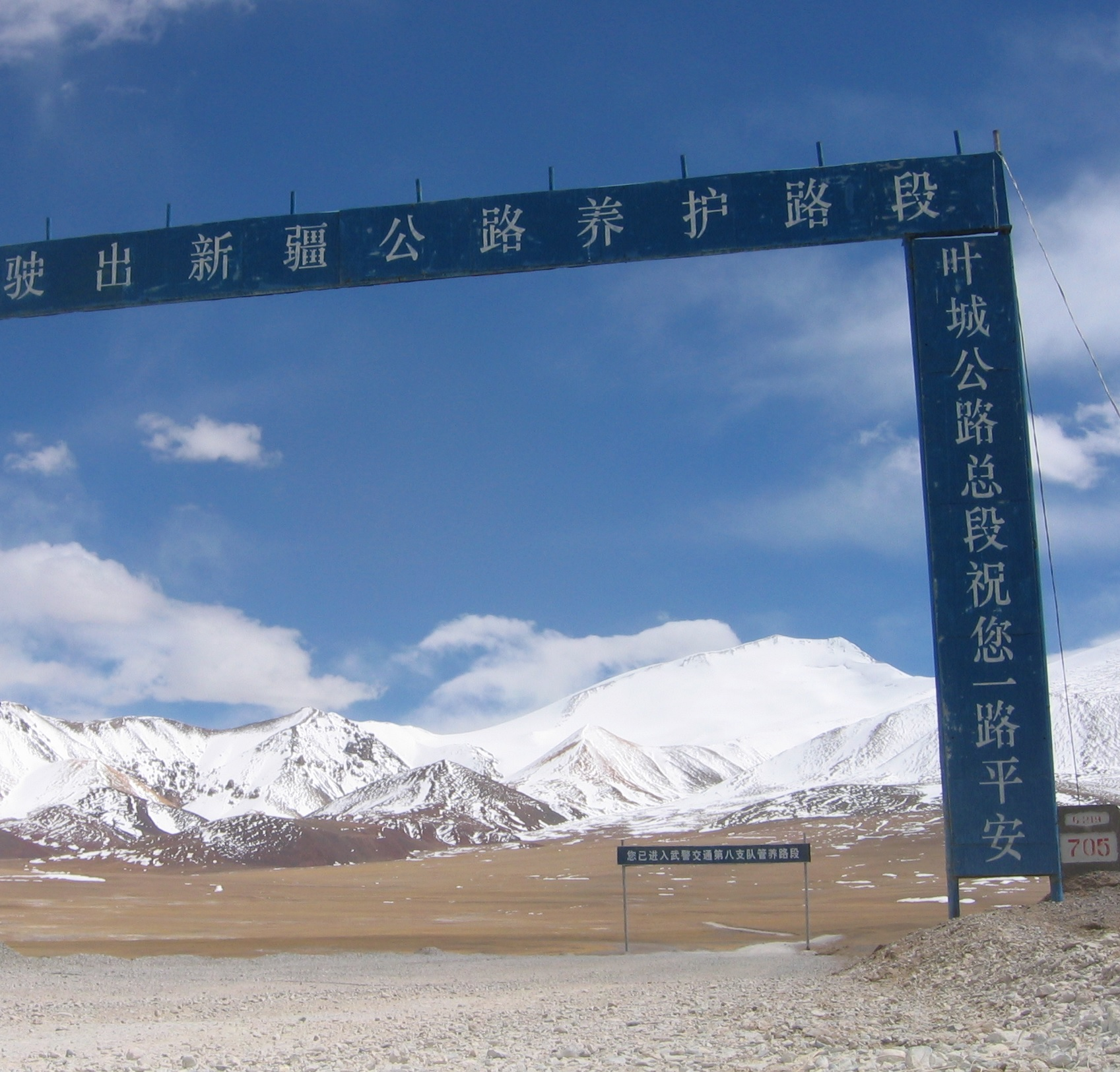 Sign by maintenance crews near the border between Xinjiang Uyghur Autonomous Region and Tibet Autonomous Region - People Republic of China